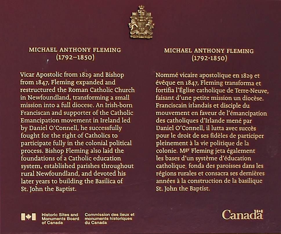 Plaque of Bishop Michael Anthony Fleming. Historic Sites and Momuments Board of Canada.